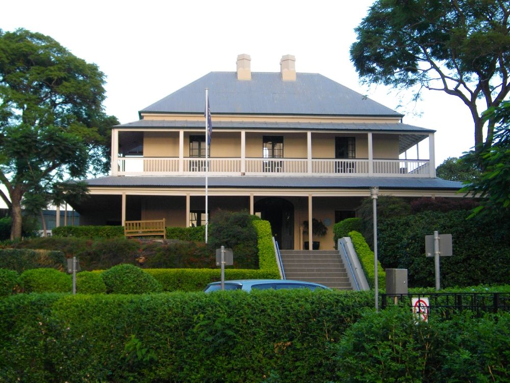 Milton House (2009)